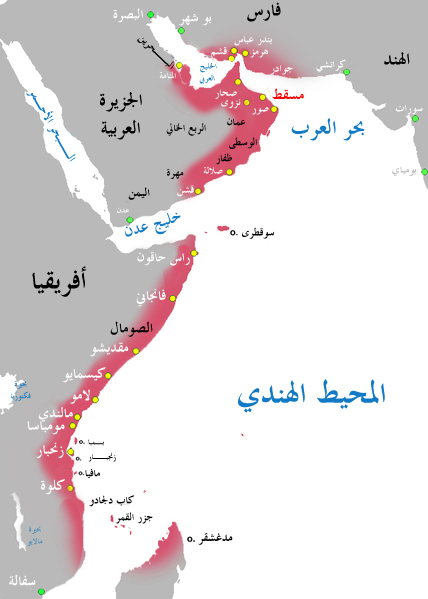 Map of Sultanate Muscat and Oman and its dependencies (Omani empire) in 1856 (before partition).